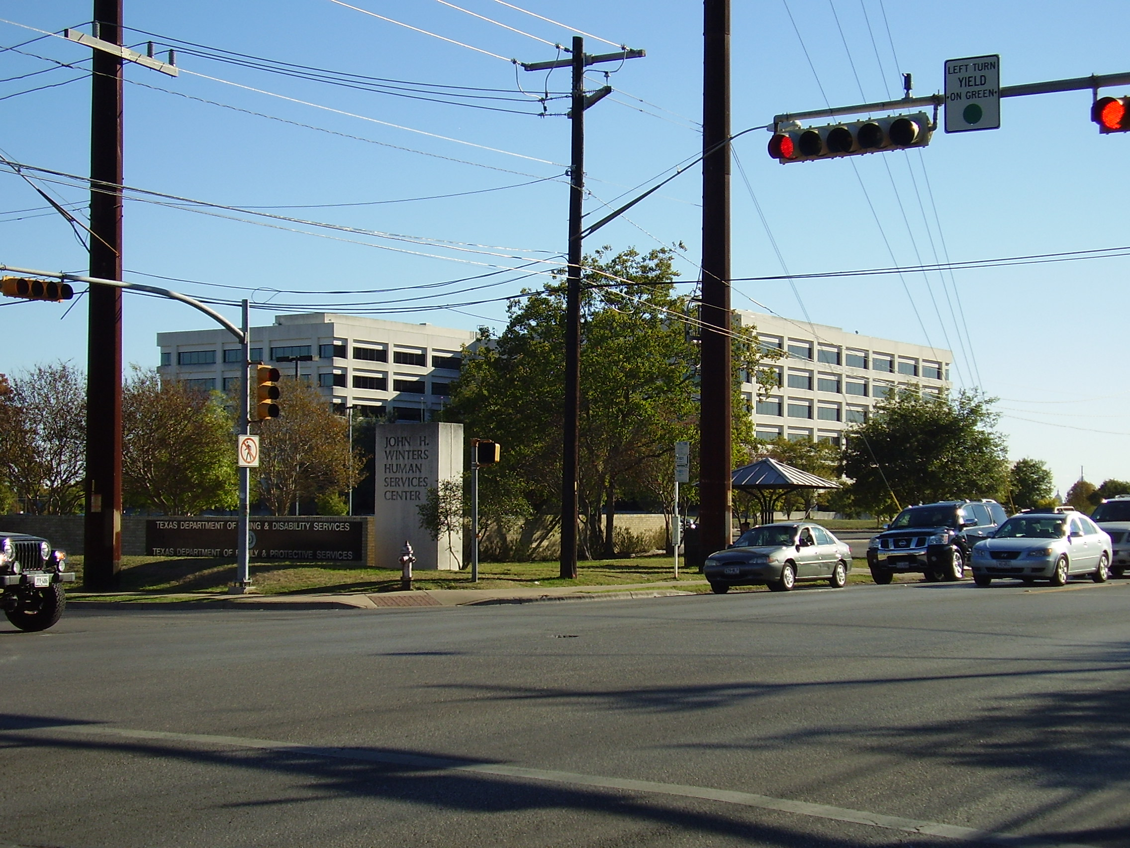 John H. Winters Human Services Center, headquarters of Texas Department of Family and Protective Services and Texas Department of Aging and Disability Services - Austin, Texas, United States